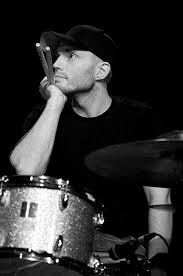 Reini Schmölzer